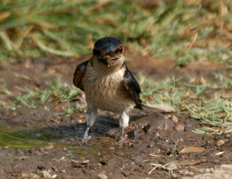 Red-rumped Swallow Cecropis daurica in Parli, Maharashtra, India.